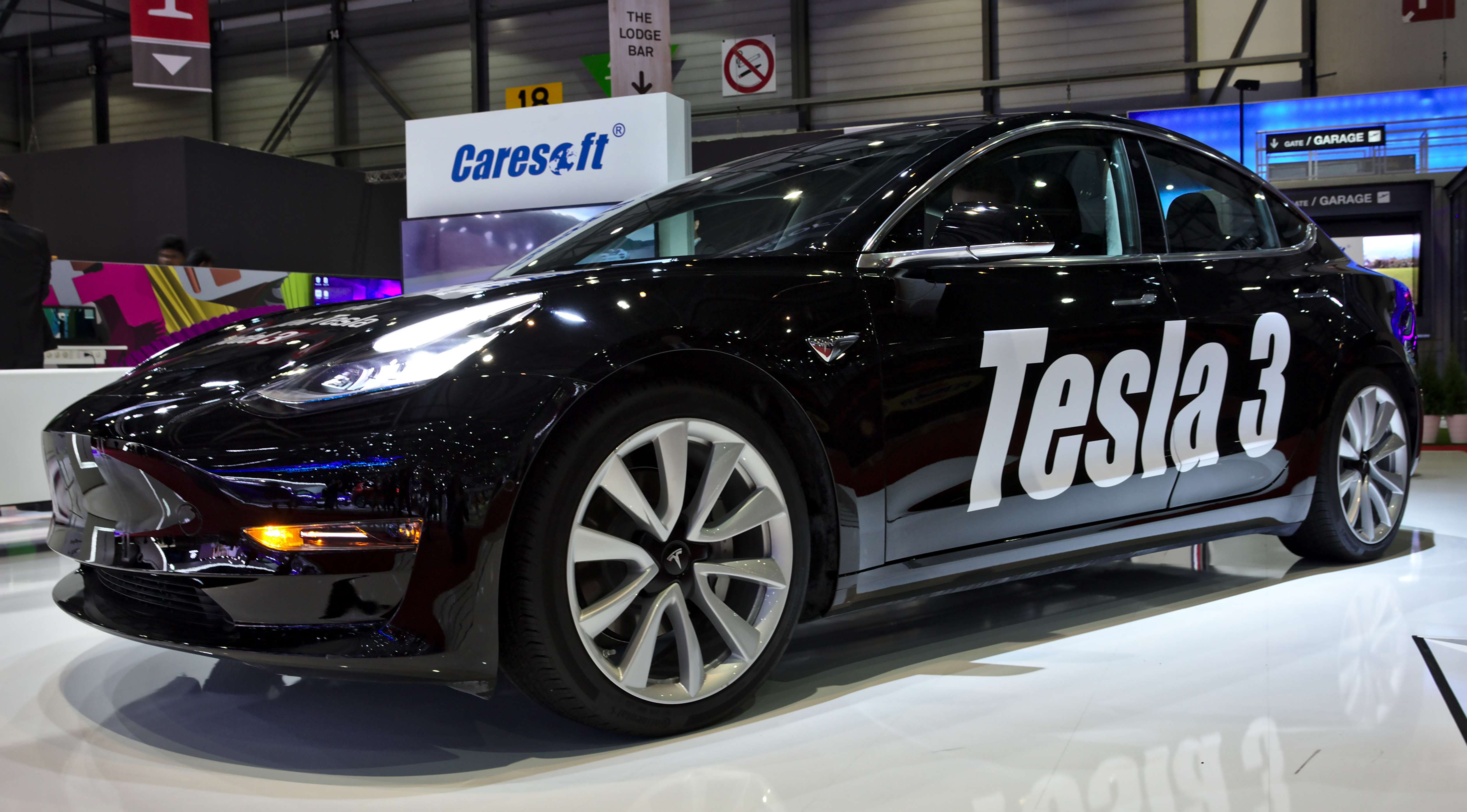 Tesla Model 3 at Geneva Motorshow 2018